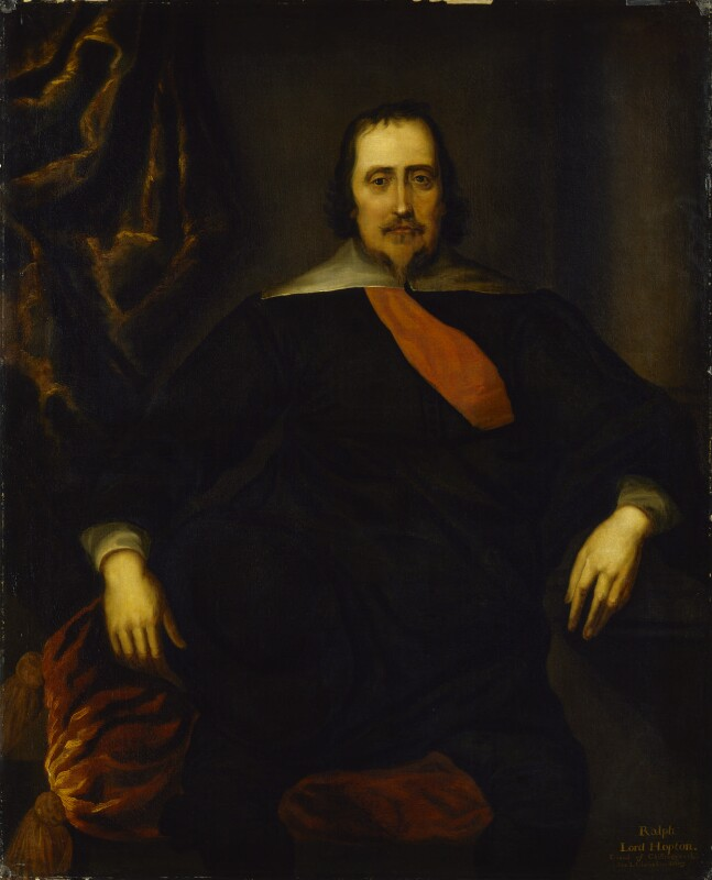 Ralph Hopton, 1st Baron Hopton (1598-1652)